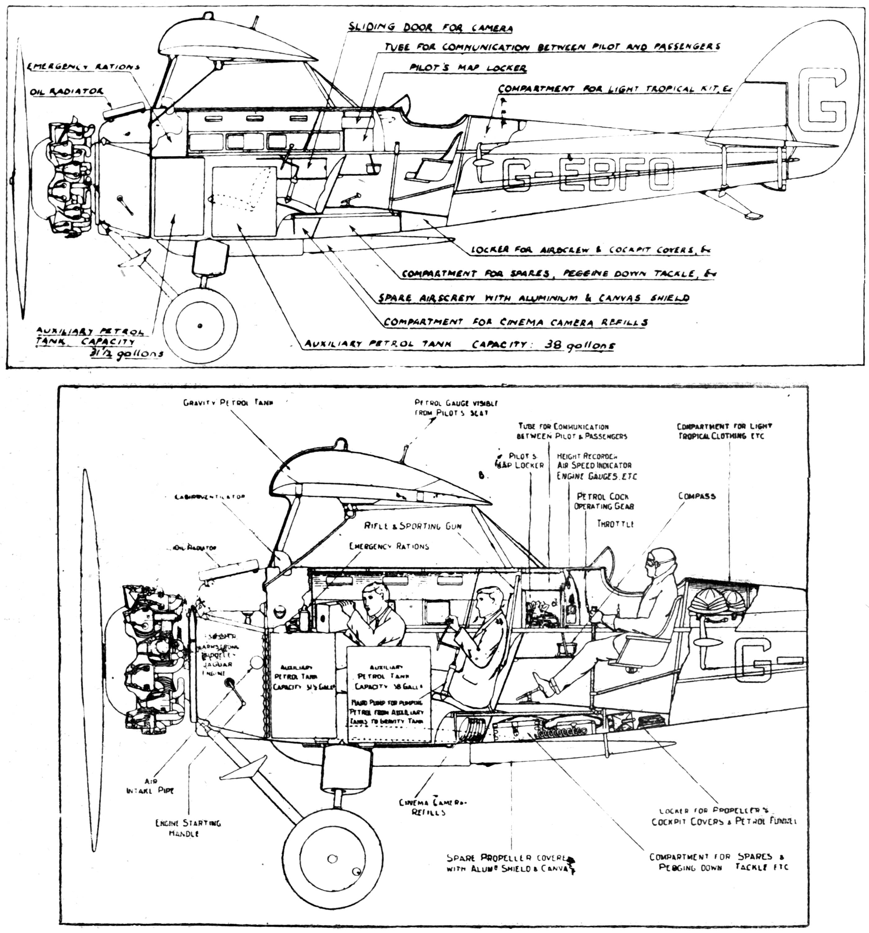 Interior detail drawing of the DH.50J flown by Alan Cobham from London to Cape Town in 1925. Drawing from L'Air January 15, 1926